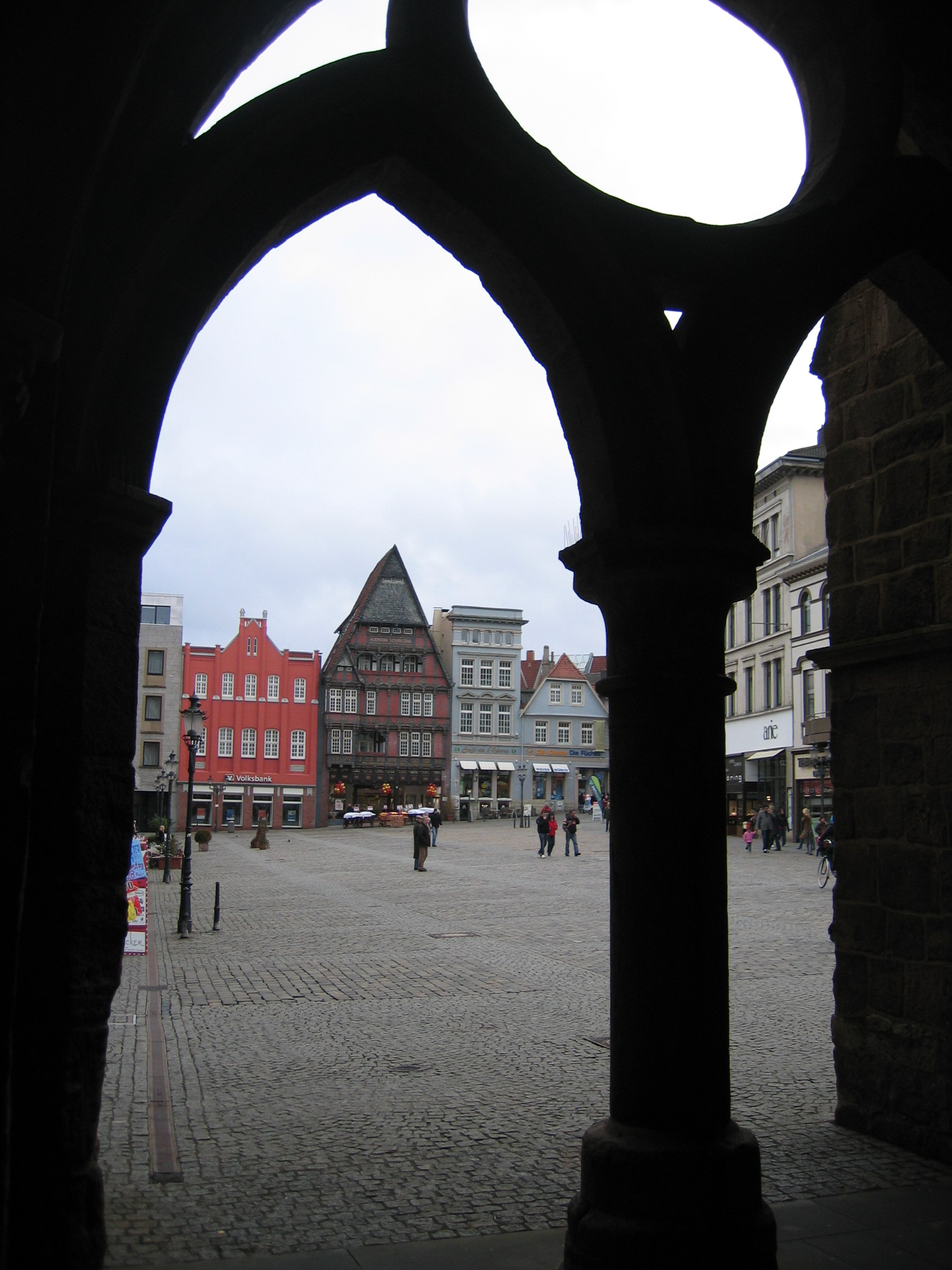 Market square seen out of arcades of Minden town hall, Minden-Lübbecke, North Rhine-Westphalia, Germany.